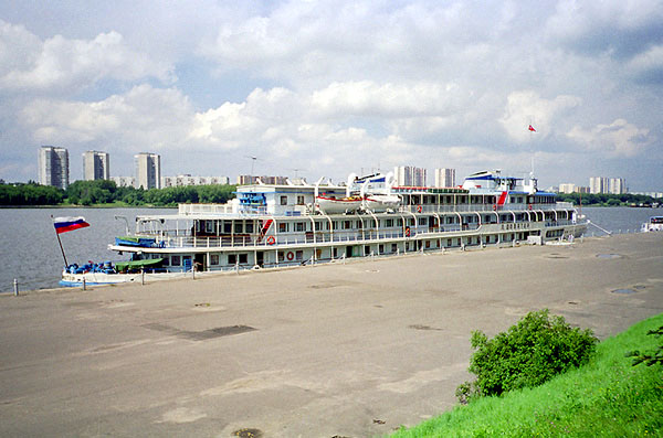 L. Dovator Project 588 Moscow 2000